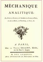 Lagrange's paper, Mécanique analytique.